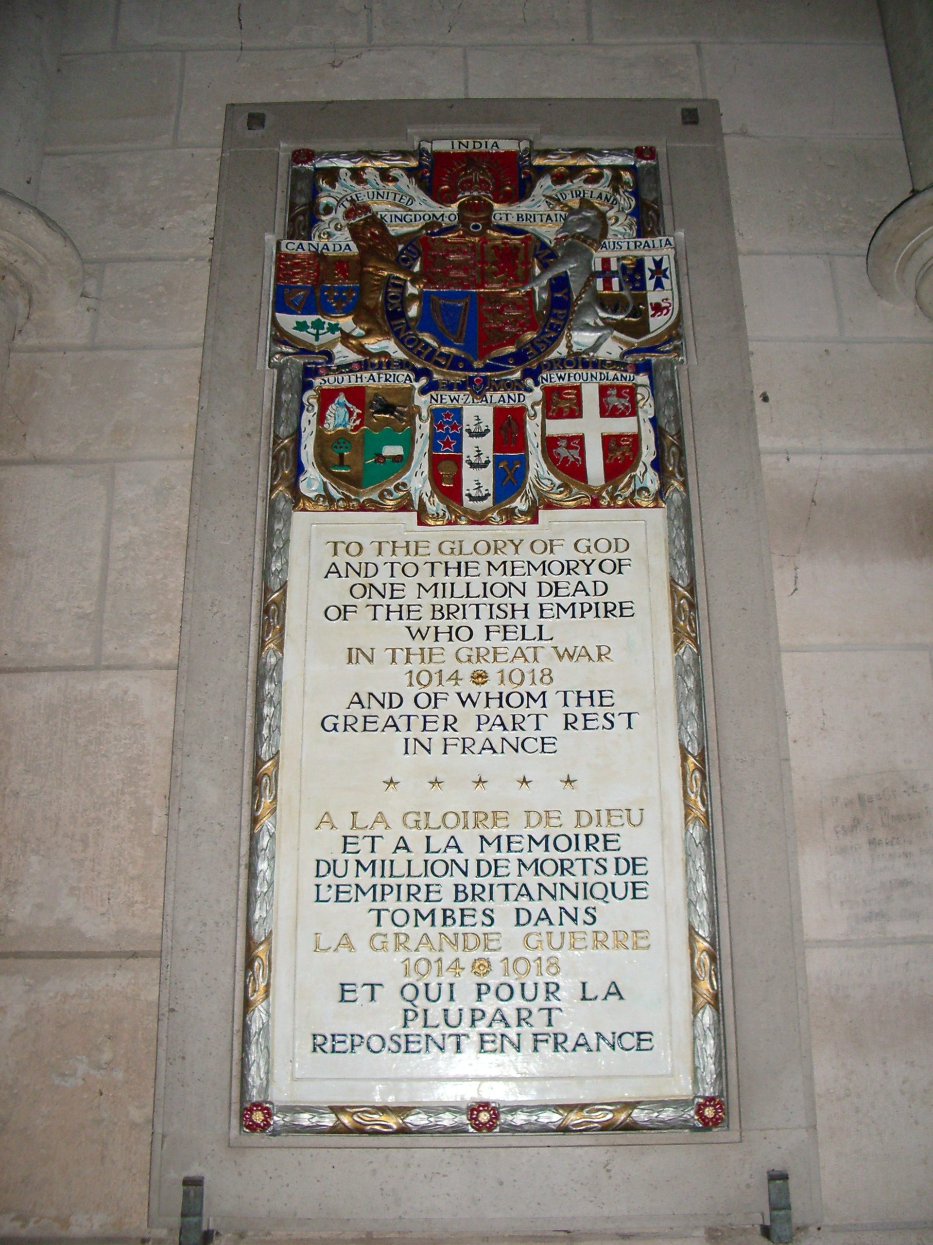 Commemorative plaque inside Laon's cathedral, Aisne, France